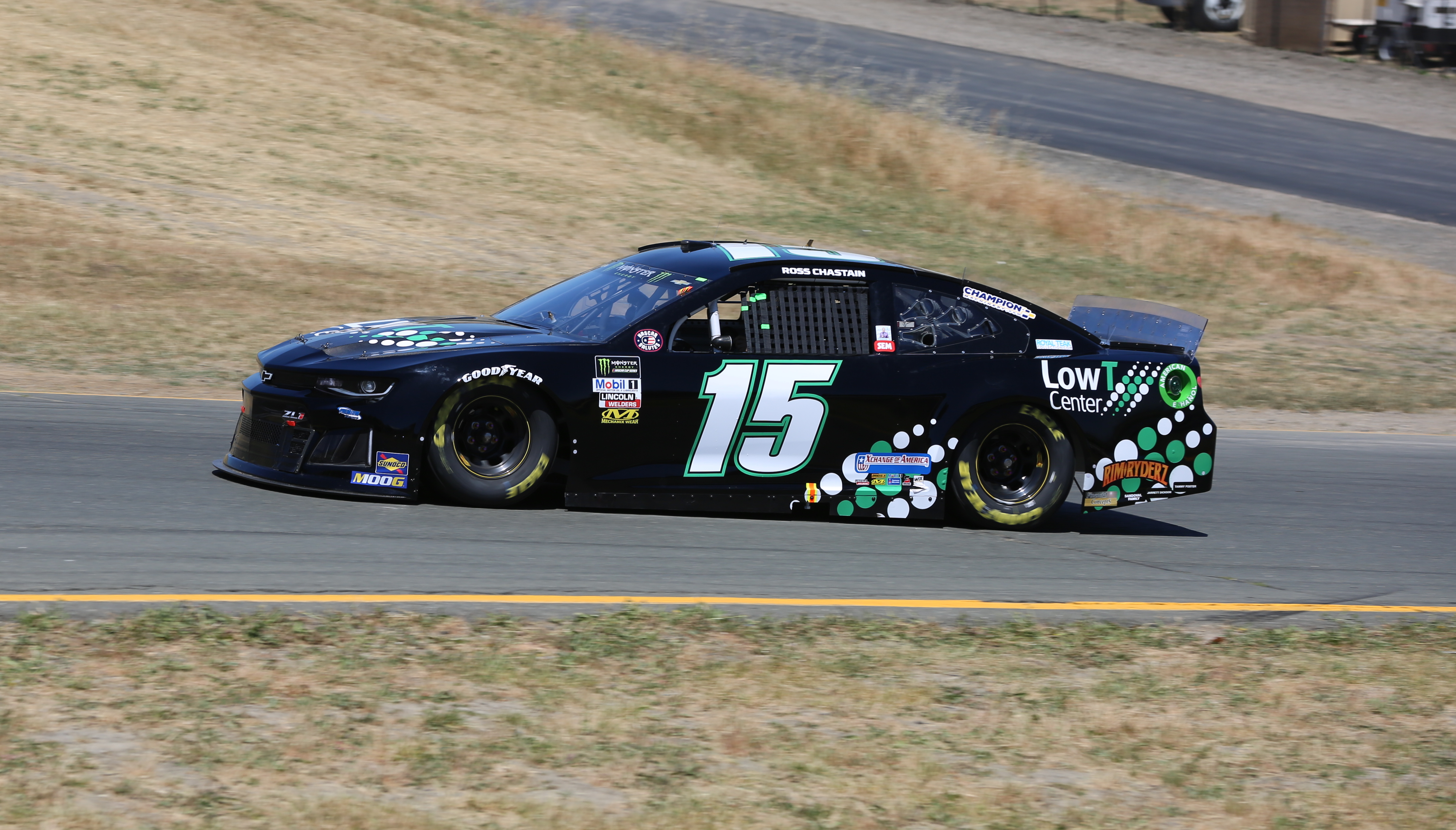 Ross Chastain's No. 15 Low T Center Chevrolet at Sonoma Raceway in 2019